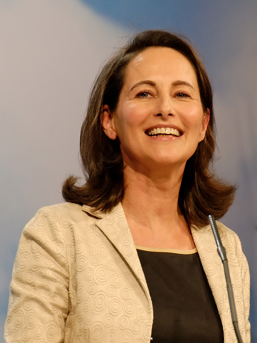 Ségolène Royal at a meeting held on Feb. 6, 2007 by the French Socialist Party at the Carpentier Hall in Paris.